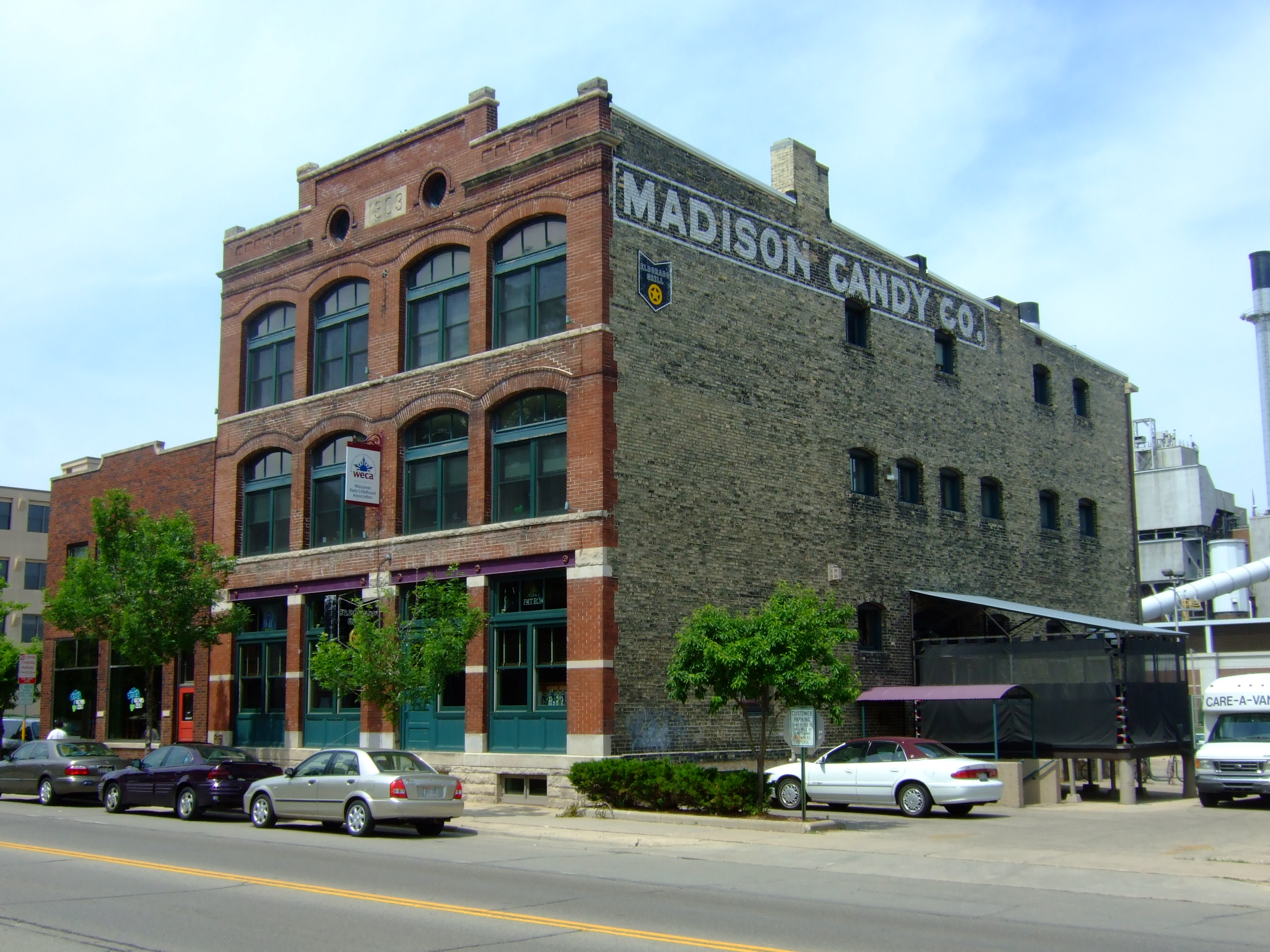 Madison Candy Company (1903) in Madison, Wisconsin. Designed by Madison civil engineer and architect John Nader in utilitarian-commercial/industrial style. Added to the National Register of Historic Places in 1997.